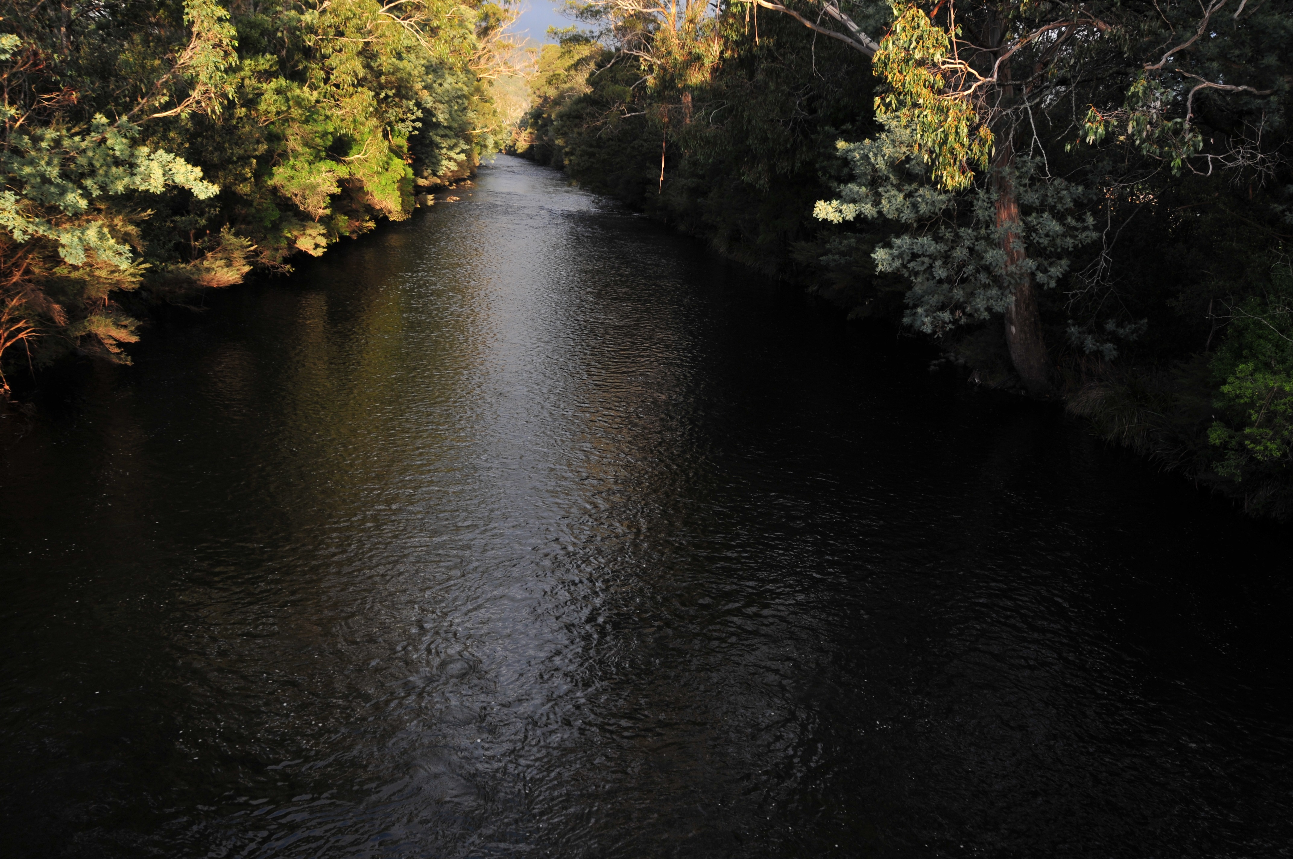 Meander River at Meander Tasmania, looking South